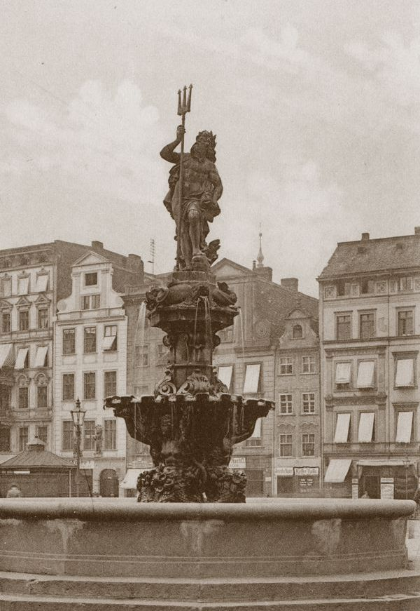 Neptunfountain in Wroclaw